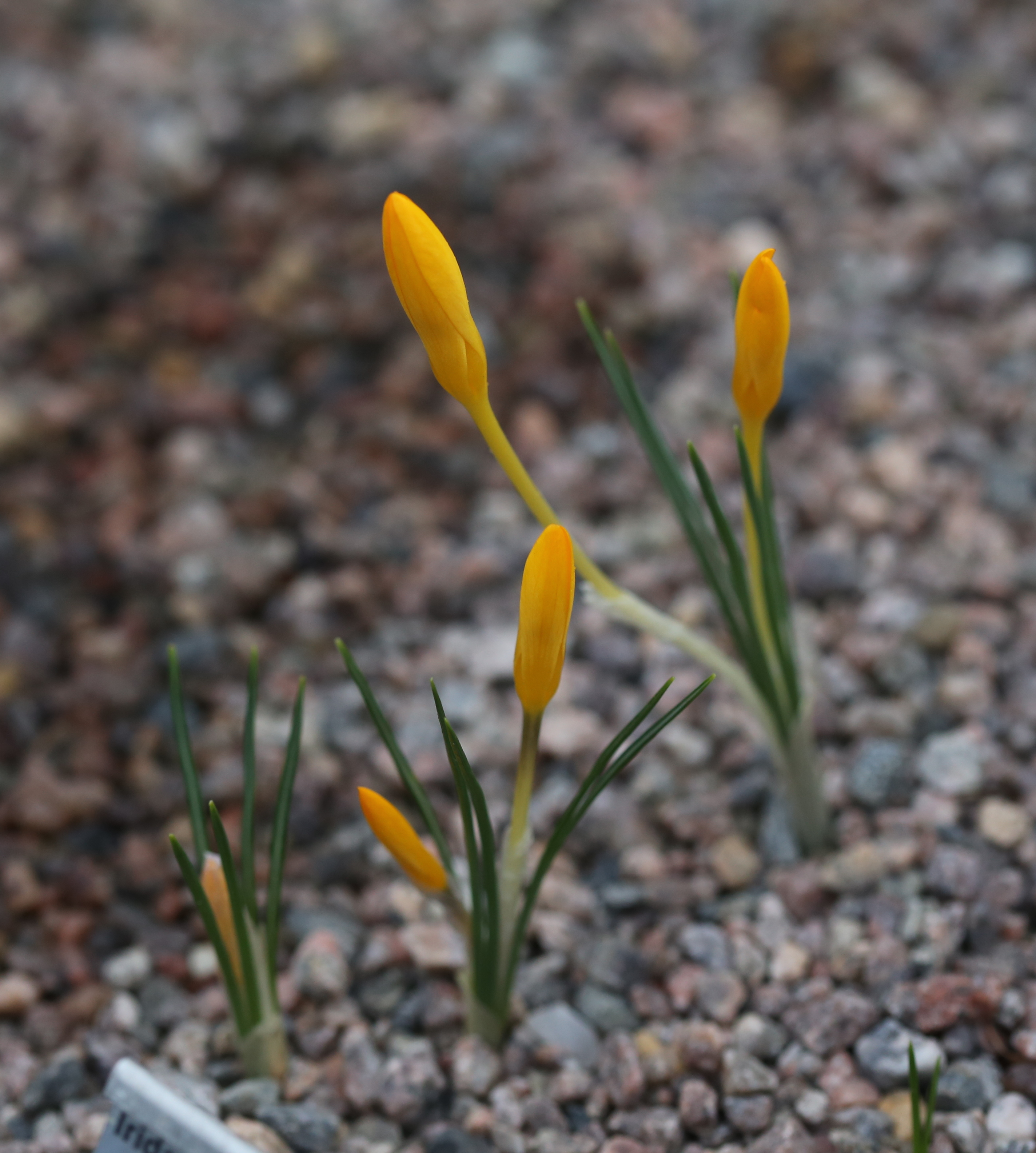 Crocus sieheanus at Gothenburg botanical garden in 2015. Plant id: 1990-2003 p W; KPPZ 90-328